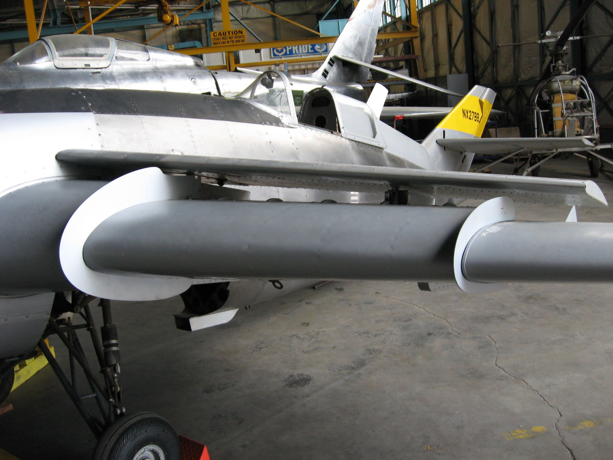 Ball-Bartoe Jetwing currently undergoing restoration at Wings Over the Rockies Air and Space Museum in Denver, CO. Augmentor detail.